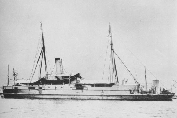 Japanese Chintou-class gunboat CHINTOU (ex-Chinese gunboat CHEN-TUNG) at Kobe Port.